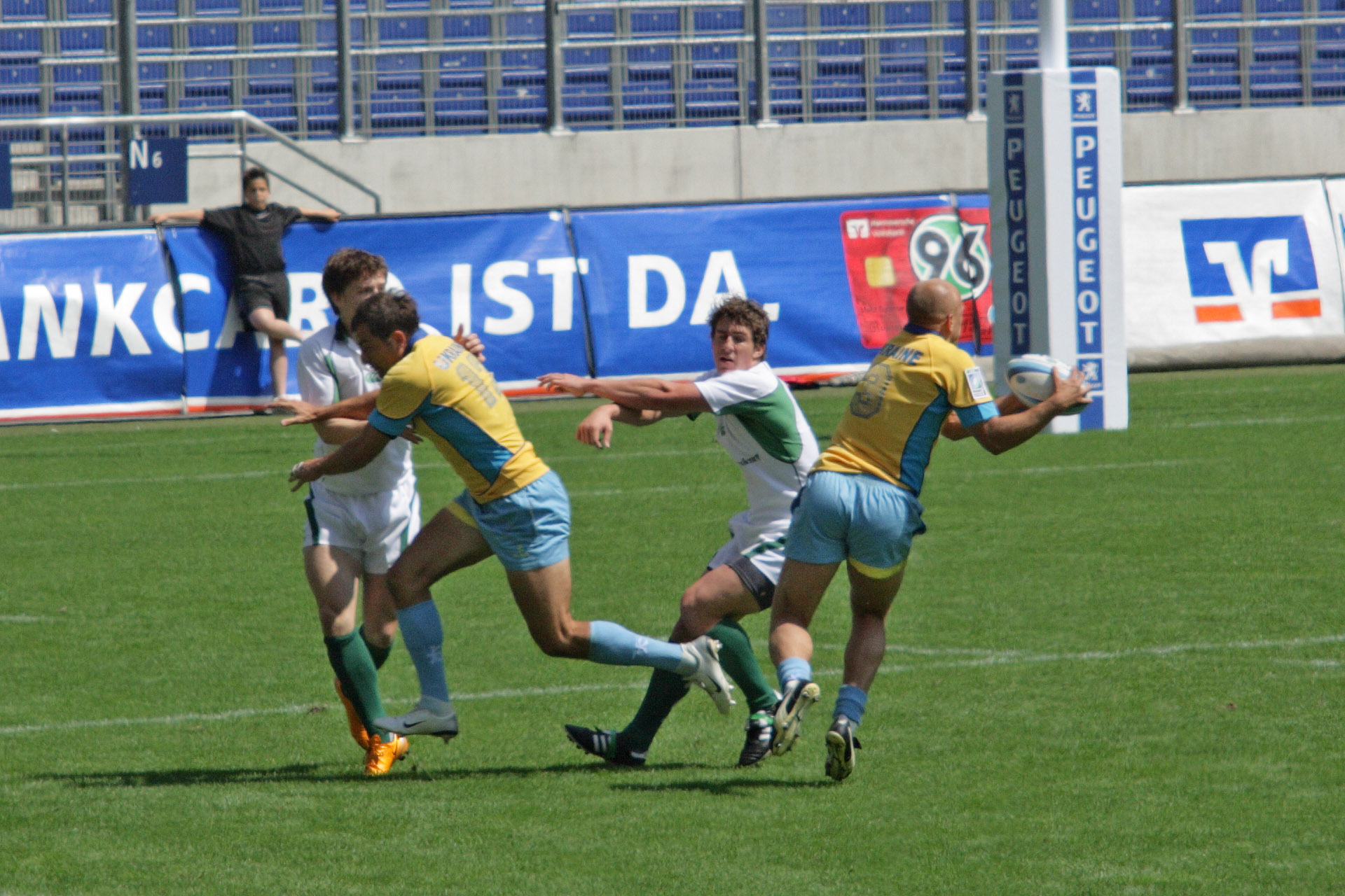 European Sevens 2008 (Hannover Sevens) tournament in Hannover, Germany. Second game of Group B, Ireland vs Ukraine. Oleg Kvasnitsa obtaining the ball. The final result of the game was 26:7 for Ireland.